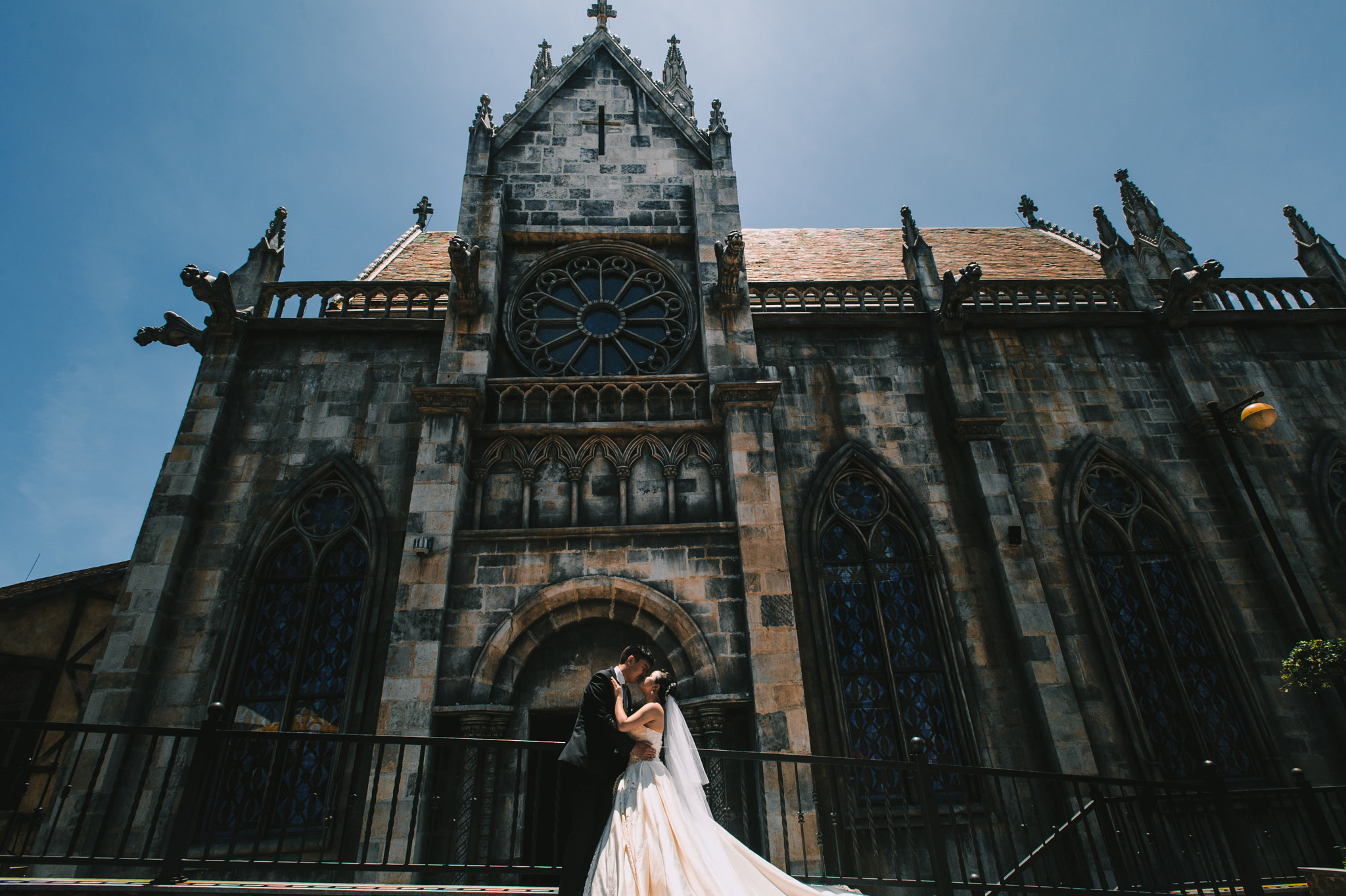 500px provided description: Photo by Tuan Nguyen - 0978 564 869 [#wedding ,#Love ,#Vietnam]